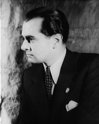 Hans Jaray. Creator: Carl Van Vechten, 1880-1964, photographer. Created/Published: November 19th, 1940. Repository: Library of Congress Prints and Photographs Division Washington, D.C. 20540 USA. Public Domain.